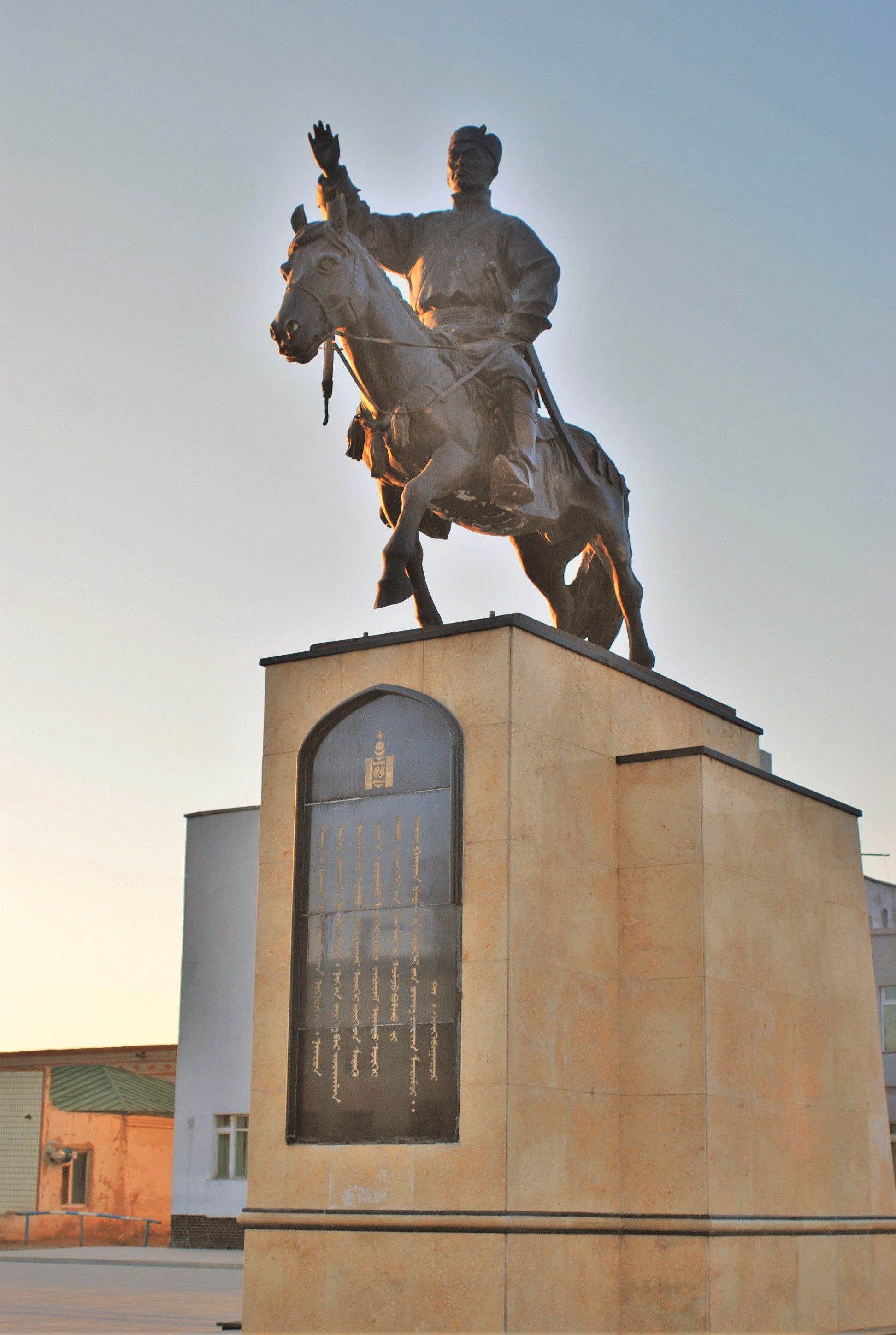 Picture of Sukhbaatar Square in front of the government building of Baruun-Urt, Sukhbaatar